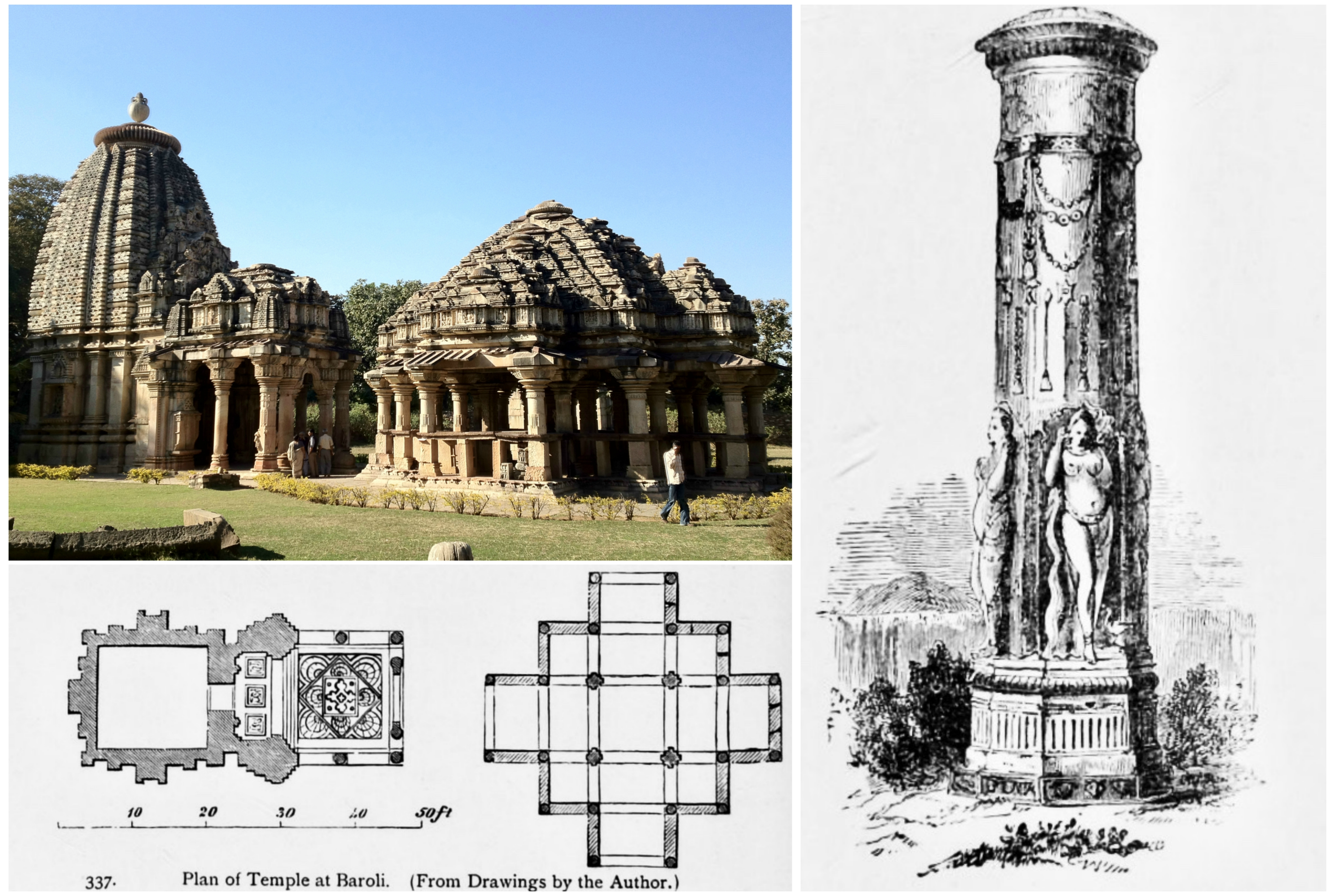 The Ghateshwara Mahadeva temple is an early 10th century Hindu temple found in Baroli, southeastern Rajasthan (near Madhya Pradesh border). The temple is a Nagara style architecture and is intricately carved. Its pillars and temple interiors show elegant details characteristic of the 10th century artists. For further information, see Cynthia Packert Atherton, The Sculpture of Early Medieval Rajasthan, Brill Academic, pp. 105-106. The file is derivative work on, 1910 sketch of plan, early 10th century temple pillar, Baroli, southeastern Rajasthan.jpg Baroli temple Rajasthan, photo and its plan.jpg